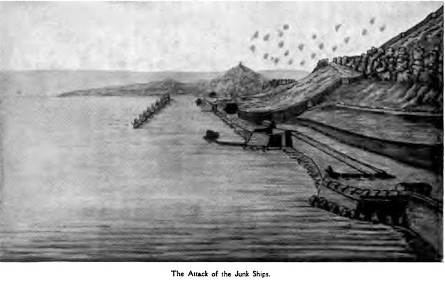 Attack of Junk Ships drawings all from a book published in 1905 but written before 1783 by Captain John Spilsbury about his experiences during the Great Siege of Gibraltar